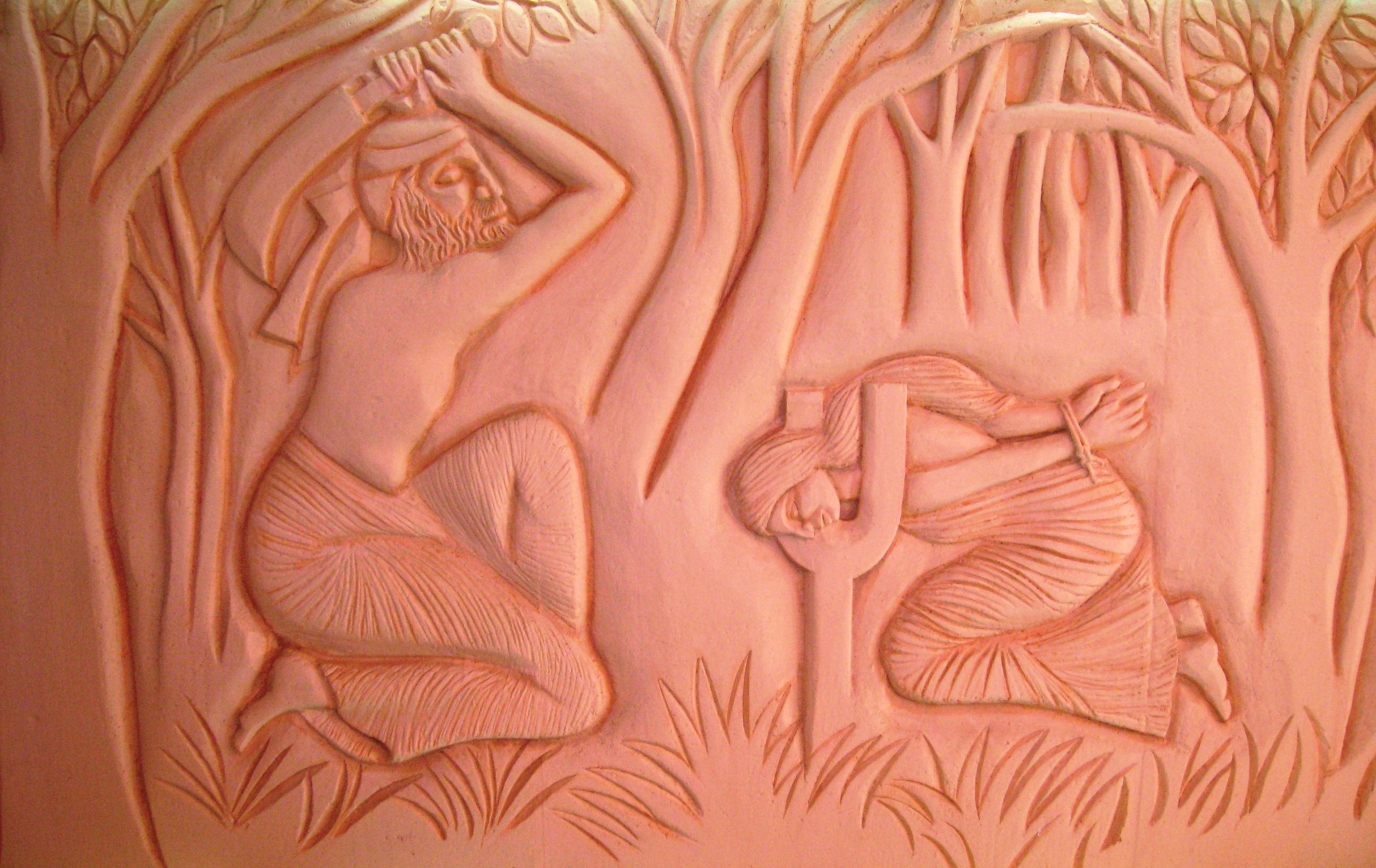 A scene from Rabindranath Tagore’s opera "Balmiki Pratibha" commemorating Tagore’s 150 birth anniversary at Barisha Udayan Pallid Durga Puja, Kolkata, 2010.